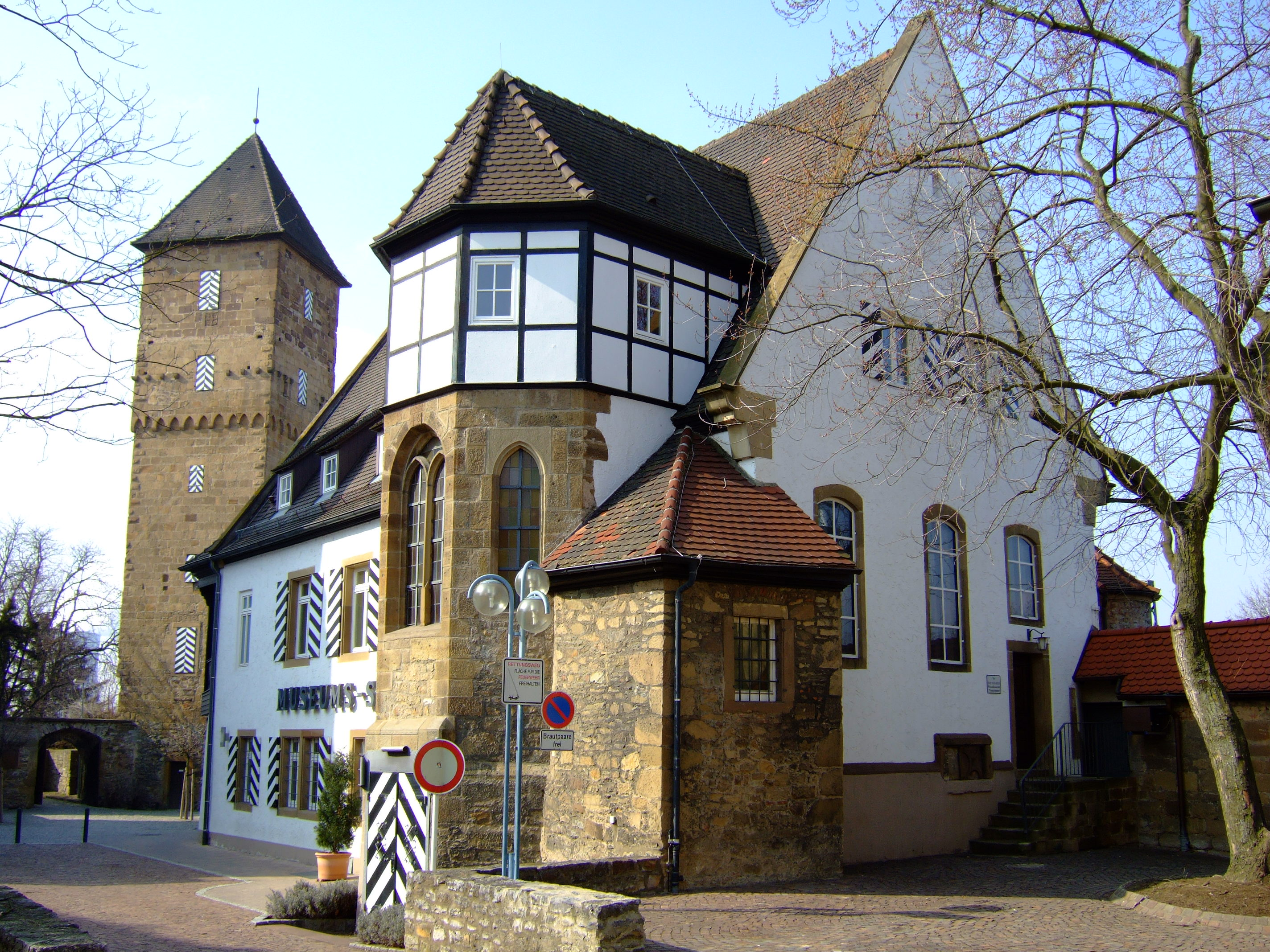 Former Chapel of the Castle Of the City Neckarsulm